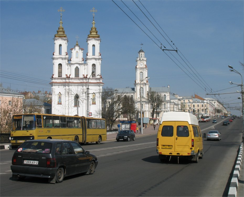 Daytime view of the lively Lenin Street in Vitebsk downtown, Belarus.